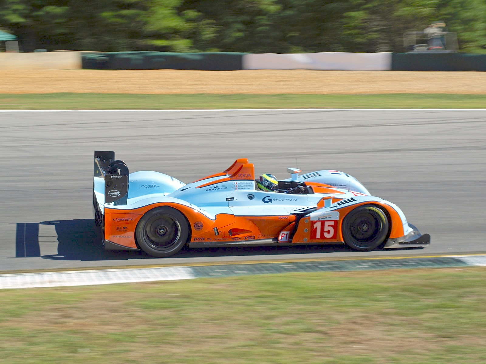 Pierre Ragues driving the OAK Racing Pescarolo 01 in qualifying for the 2011 Petit Le Mans at Road Atlanta.